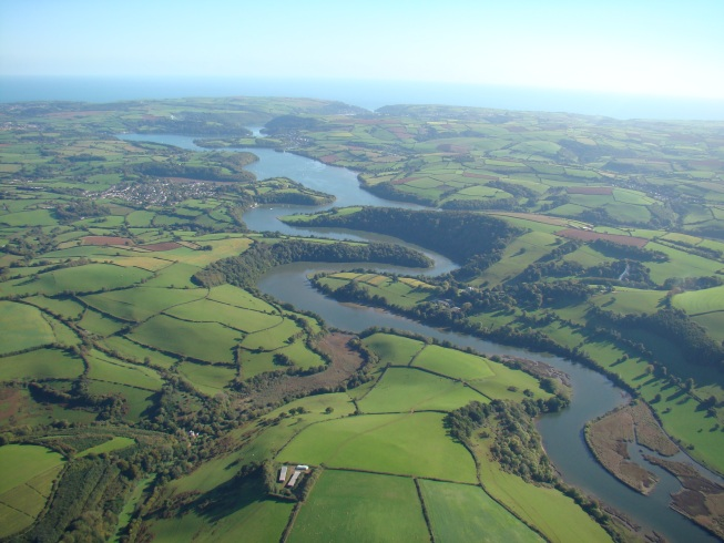 Photograph of the River Dart, Devon, England. Looking south towards the English Channel.